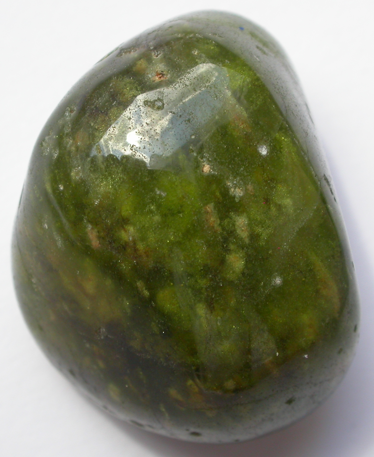 Vesuvianite - tumble polished stone